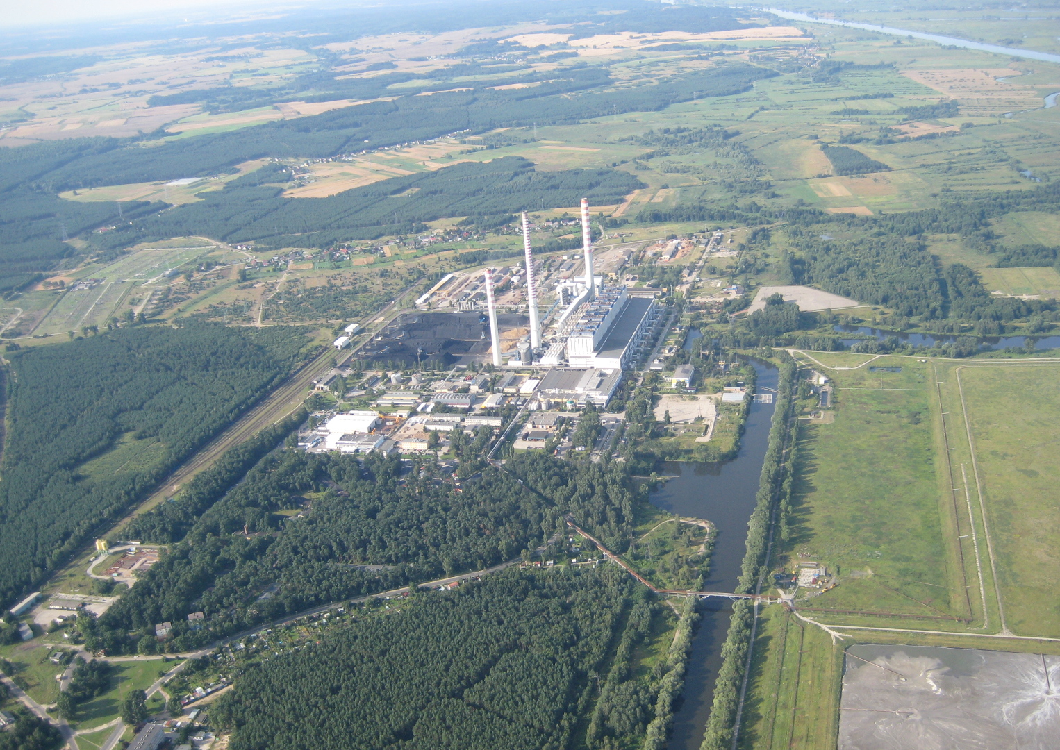 Dolna Odra Power Plant, Poland; Krajnik substation on the left